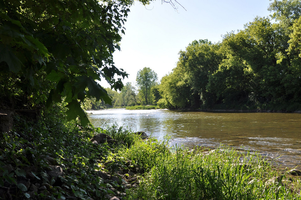 Summer Fun – Nith River